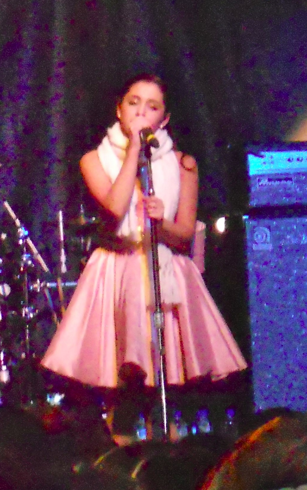 Ariana Grande performing on New Years Eve in Hershey, PA. I took this photo myself.